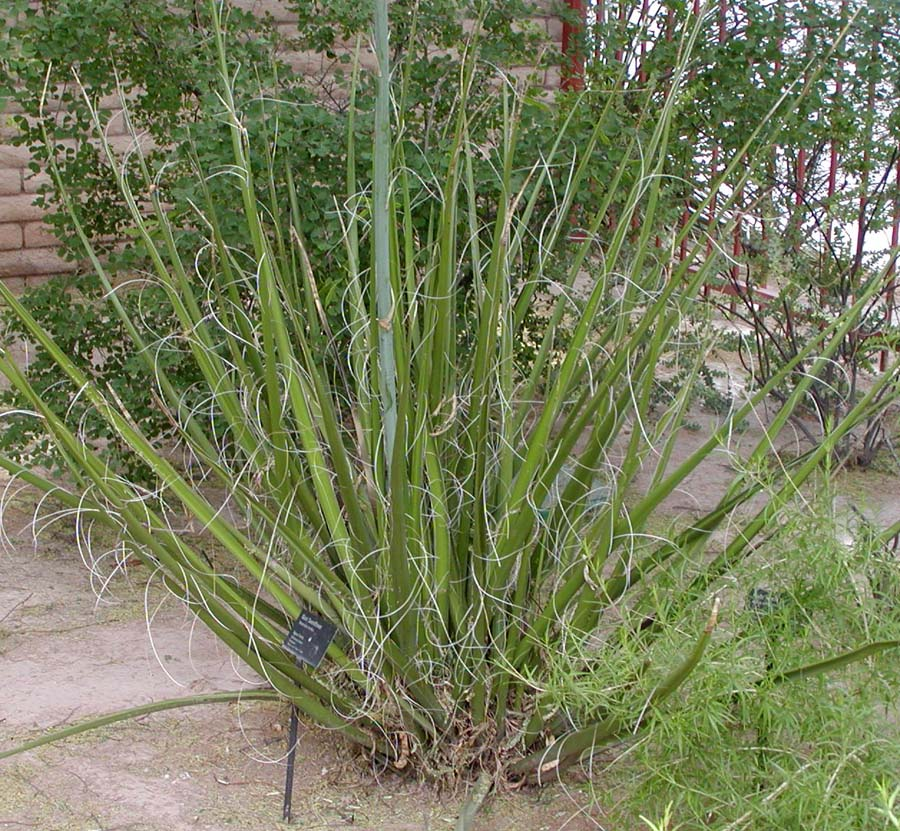 Photo of Hesperaloe funifera at the Desert Demonstration Garden in Las Vegas